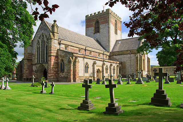 At only 182 feet in length it is the smallest cathedral in England and Wales. Begun in about 1239, it suffered greatly from its proximity to the main invasion route into North Wales. In 1282 it was burnt by Edward I's English soldiers, and rebuilt between 1284 and 1381, only to be burnt again in 1402 by Owain Glyndwr's Welsh troops. It was repaired in the late C15, and thoroughly remodelled by Gilbert Scott in 1867-75.